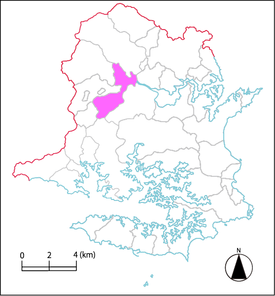 This is the map of Isobecho-Hasama, Shima, Mie, Japan.